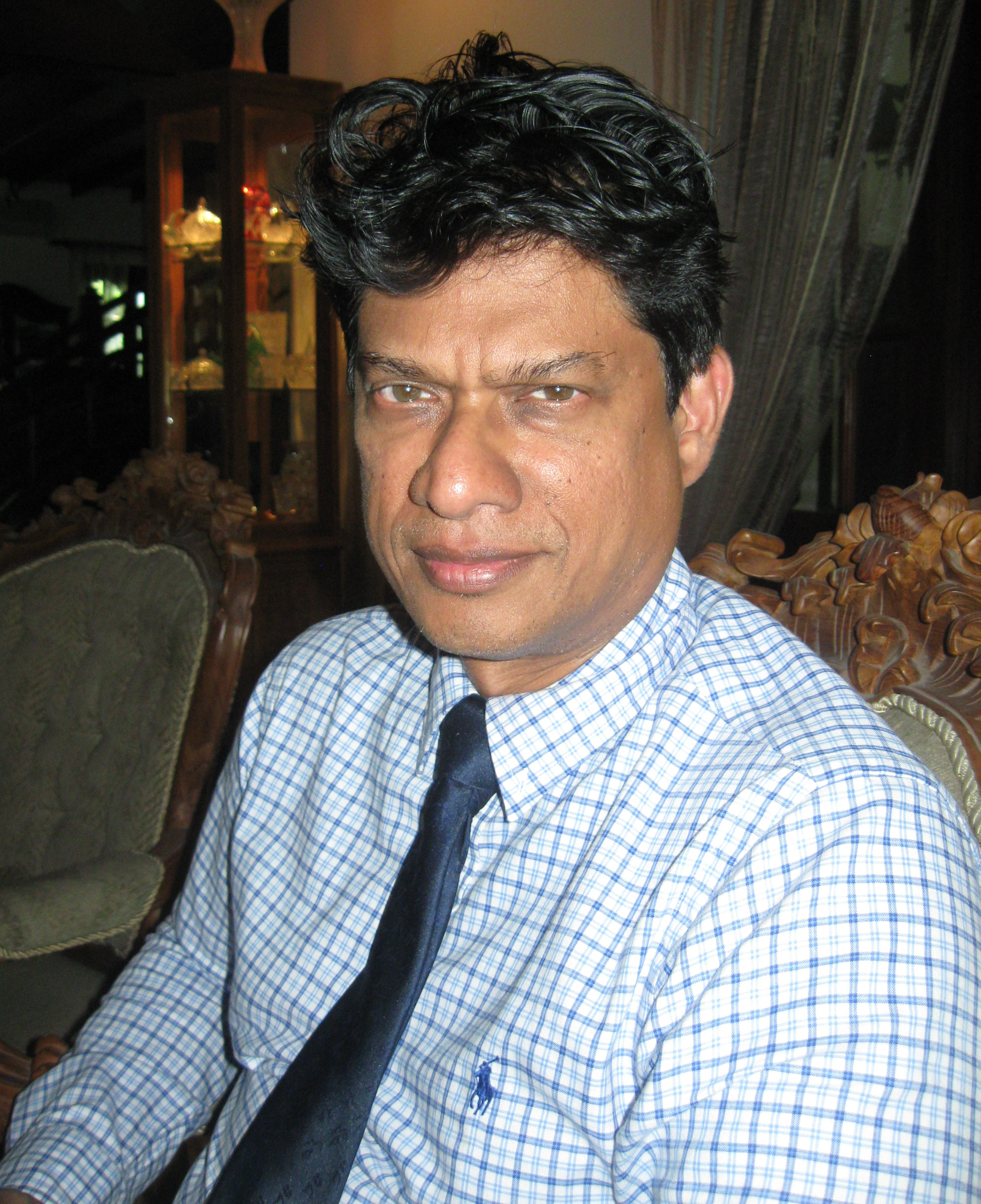 Photograph of Professor Arjuna P de Silva